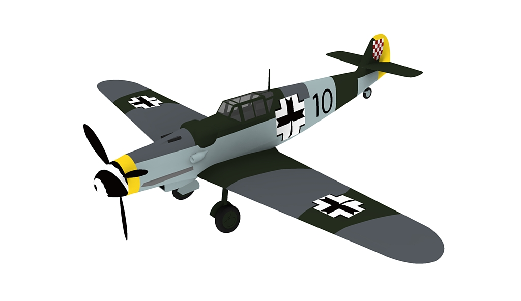 Messerschmitt Bf 109 ZNDH 3D